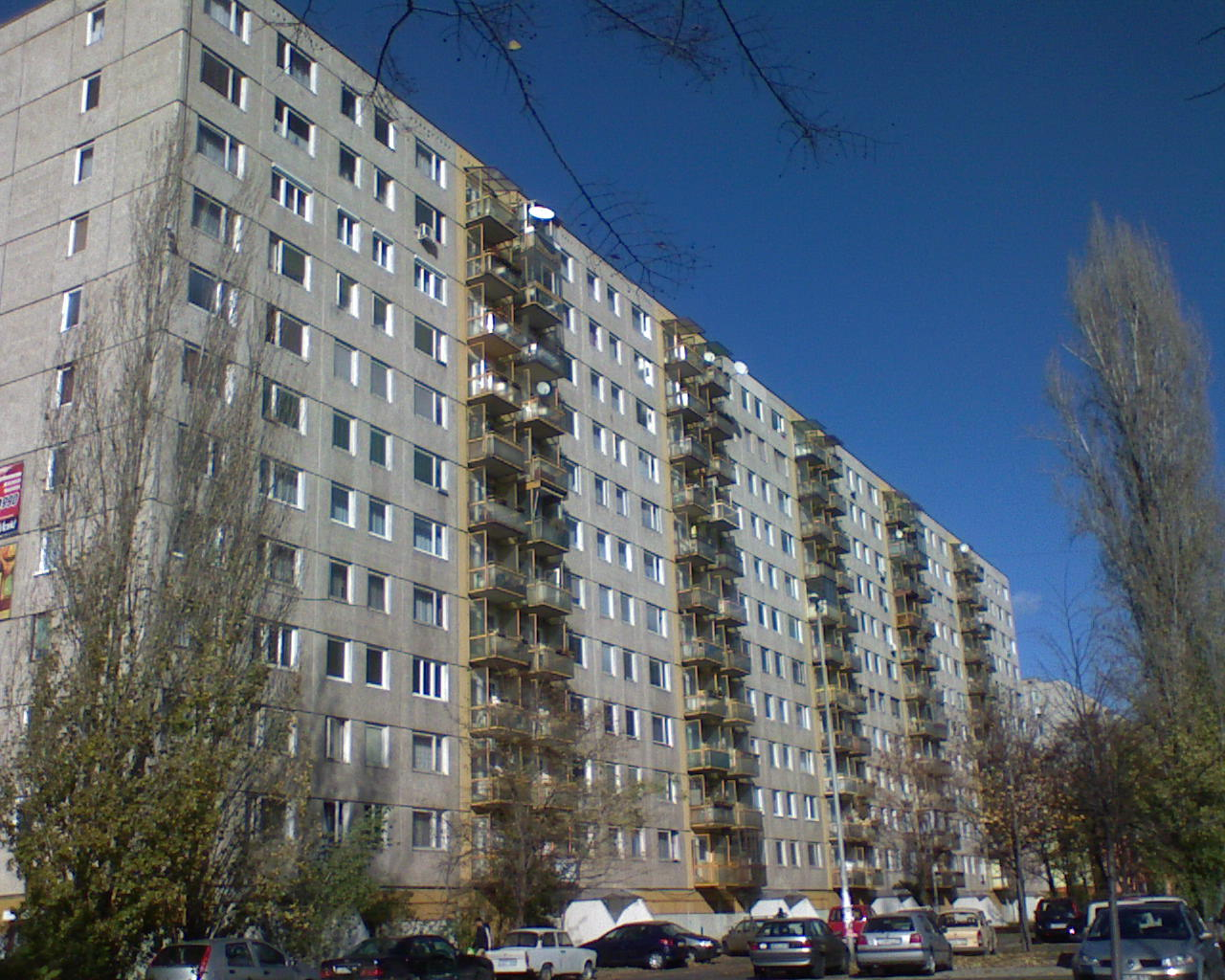 Kispesti housing estate (population: c.33,000), Budapest, Hungary